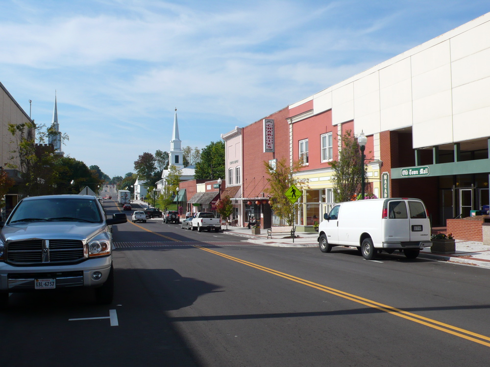 Main Street in Christiansburg, Virginia.